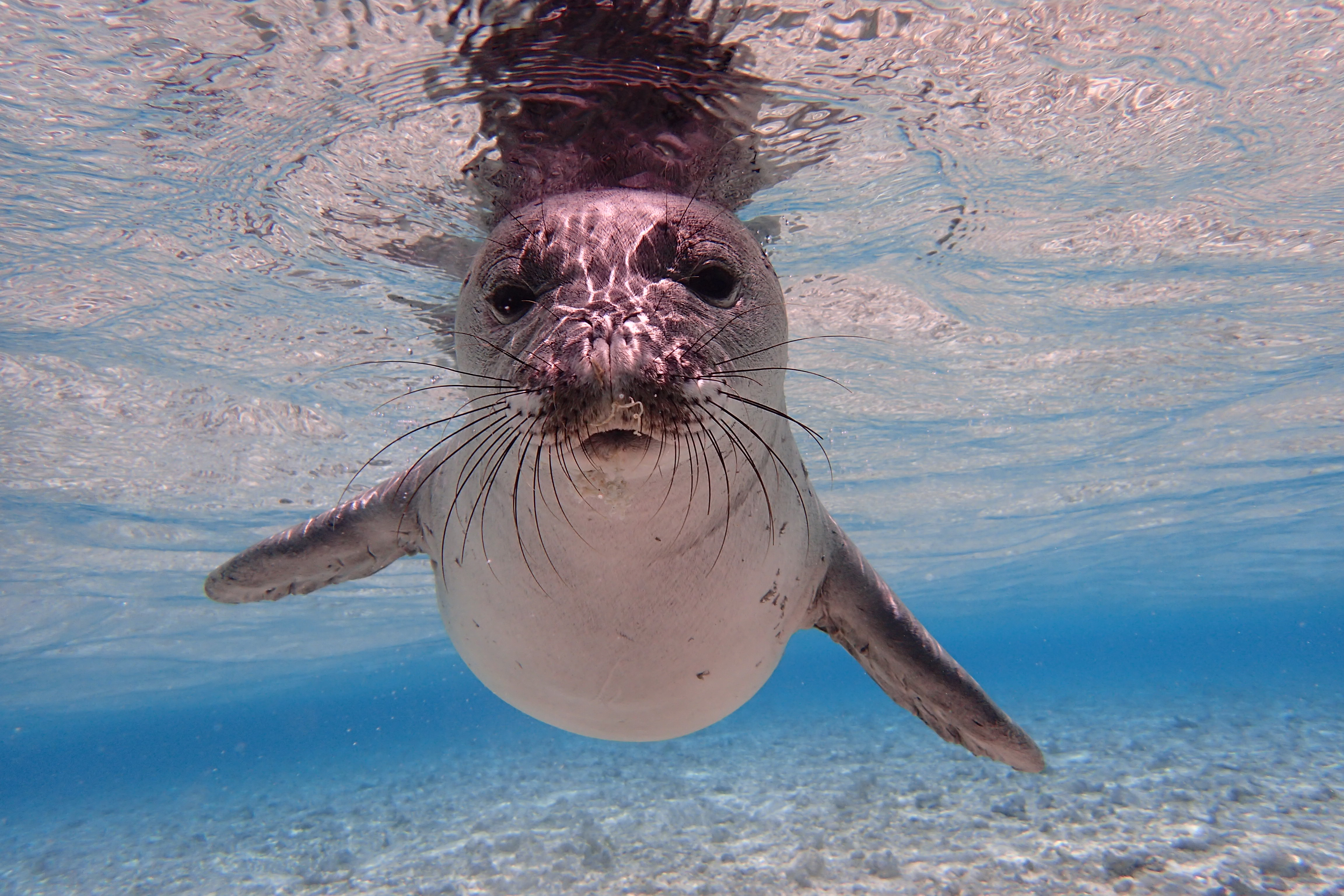 Young monk seal underwater. Image ID: anim2600, NOAA's Ark Collection Location: Hawaii, Northwest Hawaiian Islands, Pearl and Hermes Reef Credit: NOAA/PIFSC/HMSRP